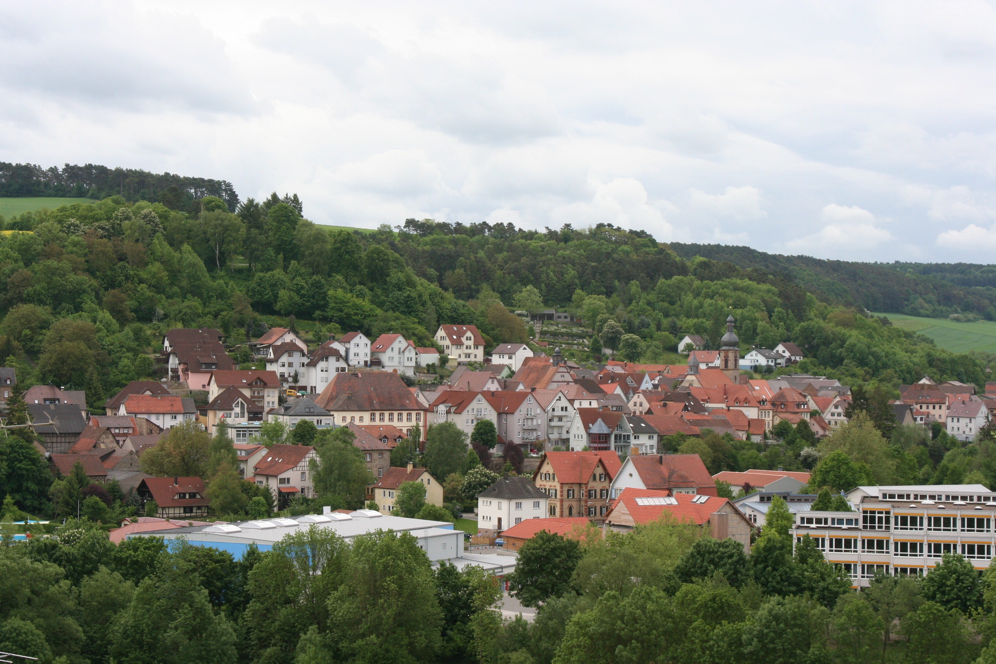 View of Boxberg from Wölchingen in the North